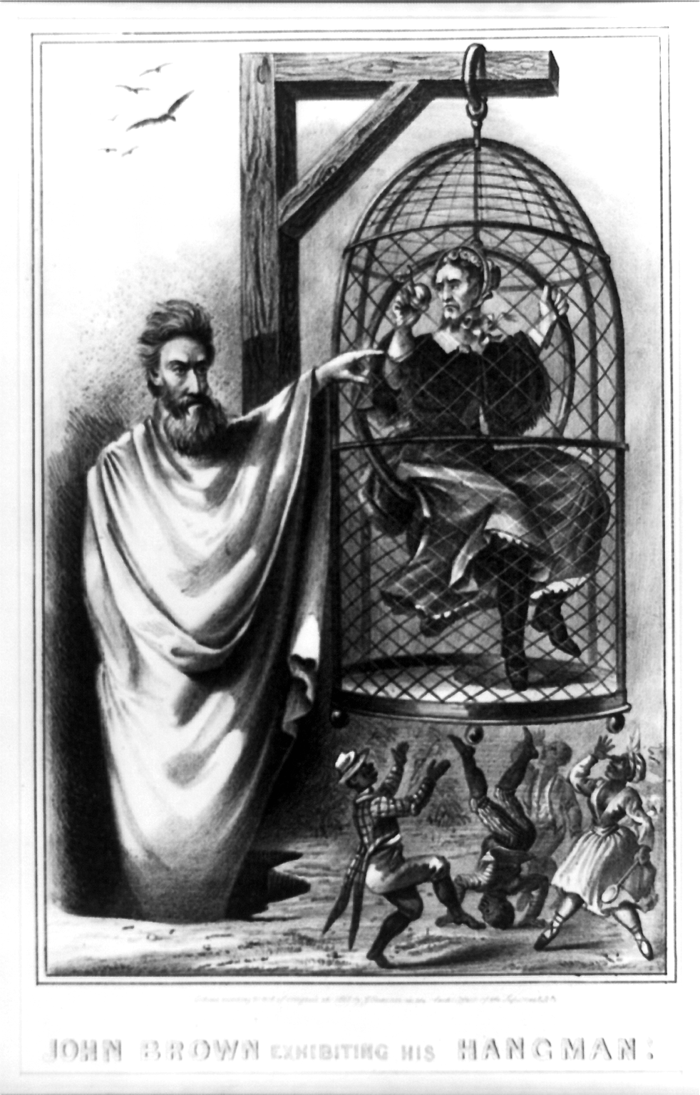 Northern rejoicing at the end of the Civil War often took the form of vengeful if imaginary portrayals of the execution of Confederate president Jefferson Davis. Here abolitionist martyr John Brown rises from the grave to confront Davis, although in actuality the latter had nothing to do with Brown's 1859 execution. Brown points an accusing finger at Davis, who sits imprisoned in a birdcage hanging from a gallows. Davis wears a dress and bonnet, and holds a sour apple. Below, black men and women, resembling comic minstrel figures, frolic about. (For Davis's female attire, see "The Chas-ed "Old Lady" of the C.S.A.," no. 1865-11.) Since the beginning of the war Union soldiers had sung about "hanging Jeff Davis from a sour apple tree." Davis's actual punishment was imprisonment at Fortress Monroe after his capture on May 10, 1865.